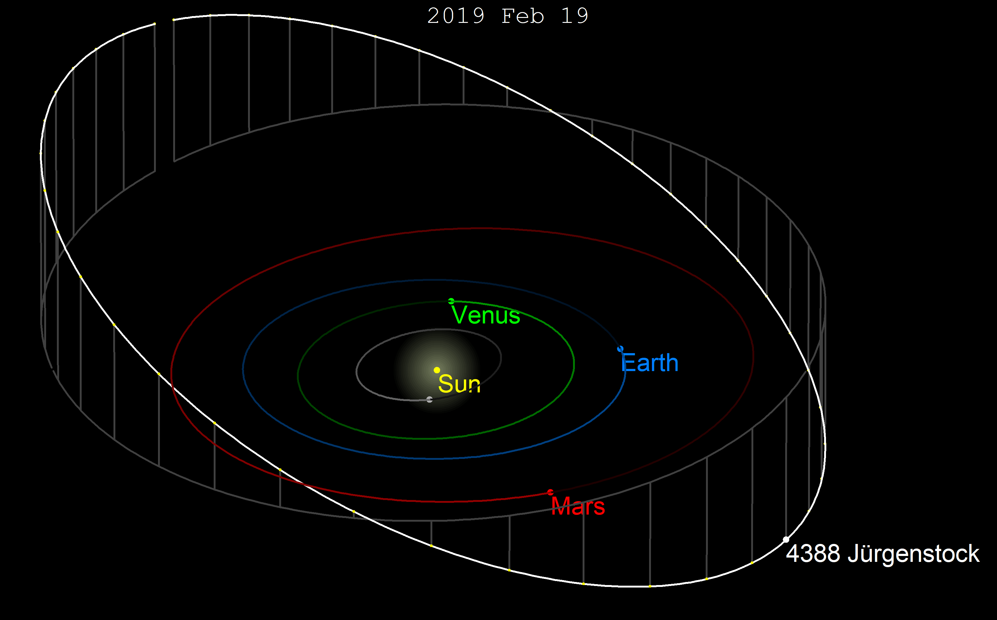 en:4388 Jürgenstock orbit